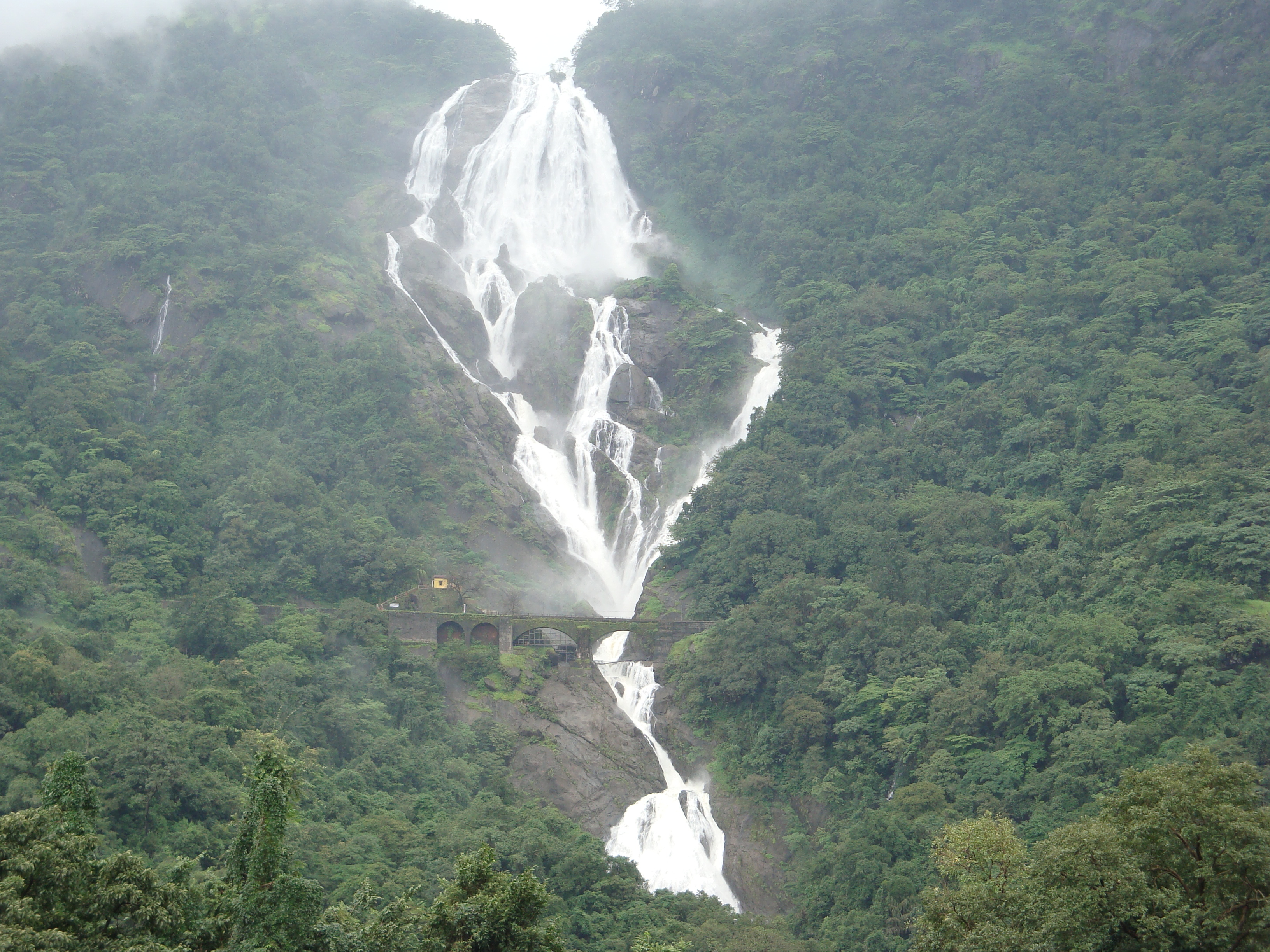 Majestic DudhSagar Water Falls in Mansoon